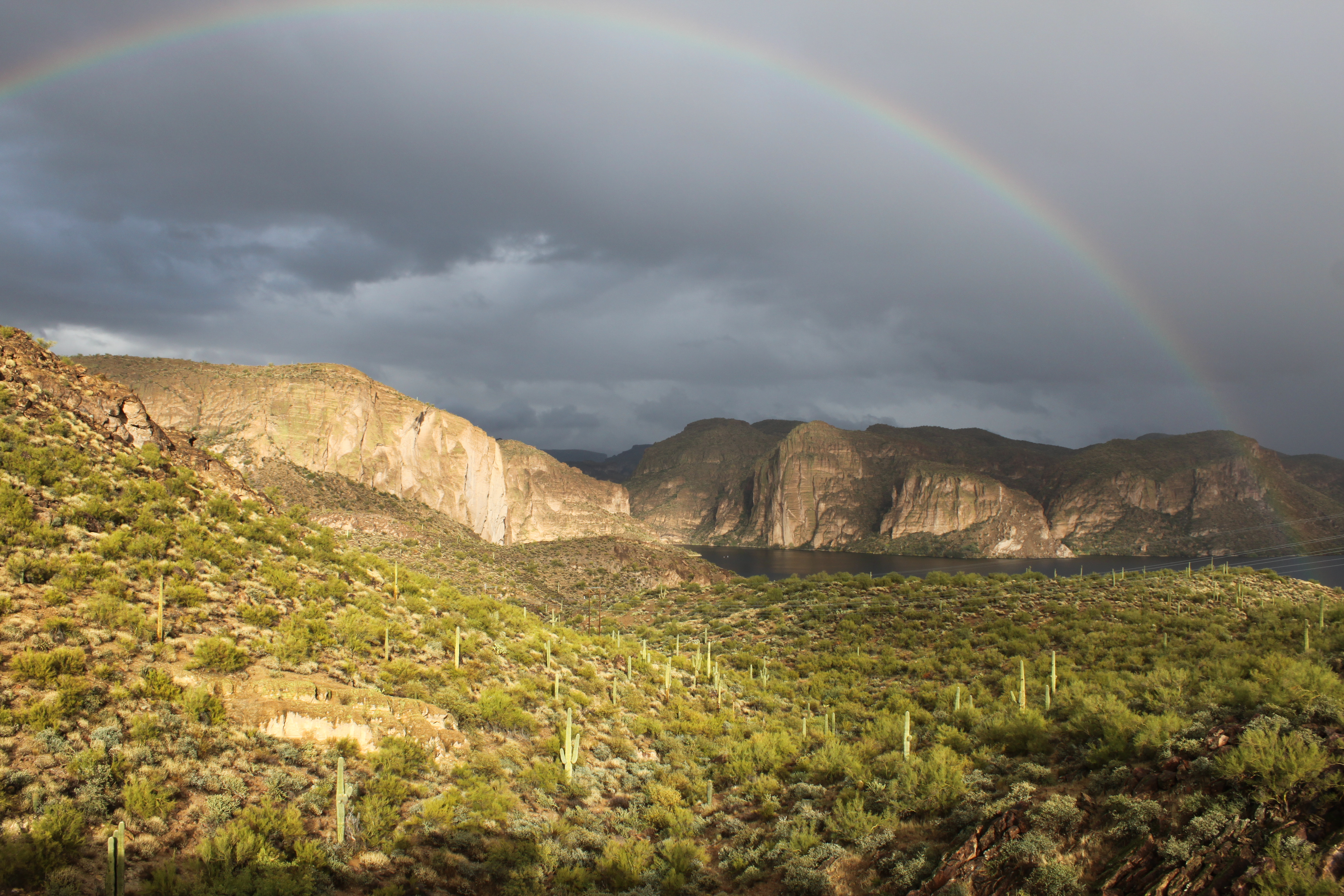 Canyon Lake, Rainbow Landing